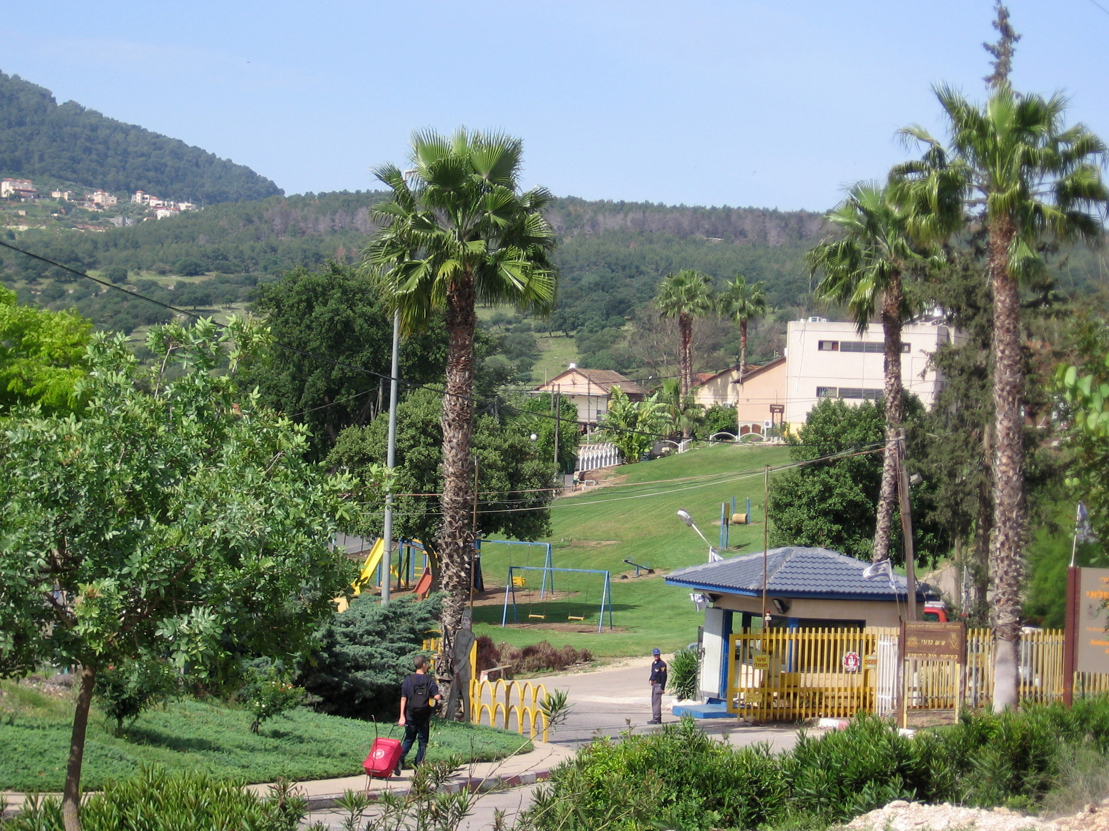 Entrance to Kadoorie Agricultural High School, Lower Galilee Israel